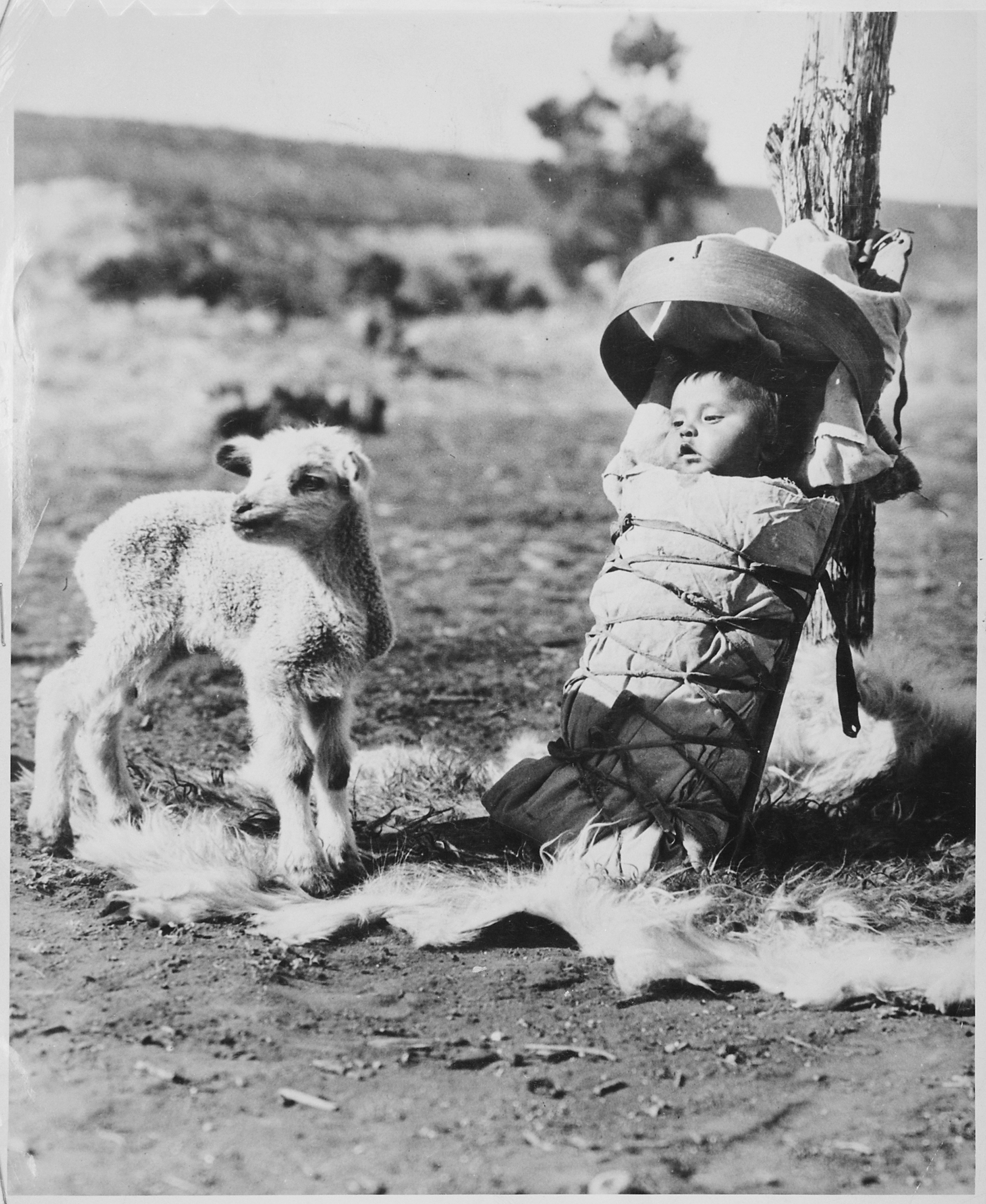 Navajo papoose on a cradleboard with a lamb approaching, Window Rock, Arizona.